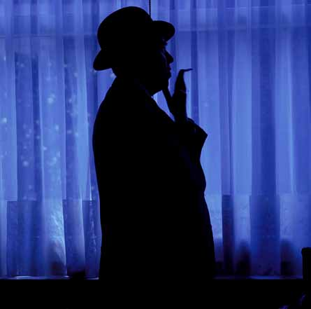 René Magritte photographed by Lothar Wolleh